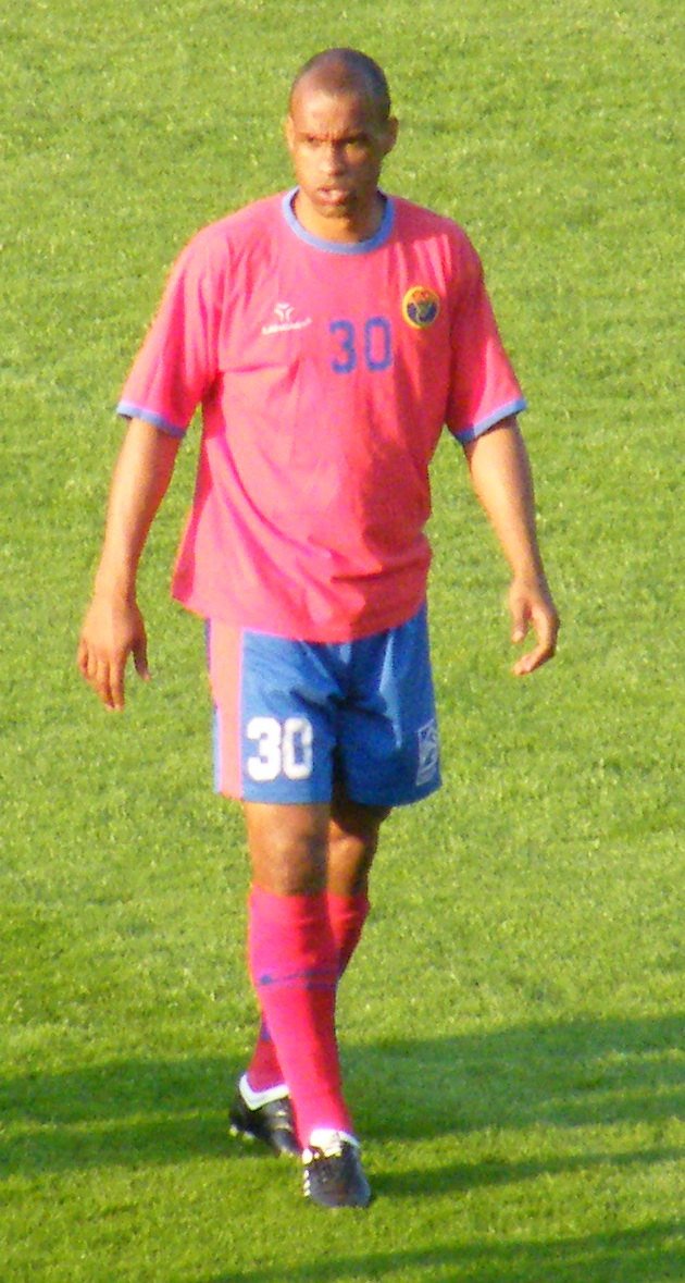 Thomas Sowunmi Hungarian football player